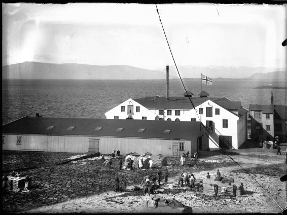 Um 1930, saltfiskbreiðsla á stakkstæði Alliance við Mýrargötu. Fiskvinnsluhús Alliance fyrir miðju, Mýrargata 2. Ljósmyndari / Photographer: Magnús Ólafsson Format: Glerplata / Glass negatives, 12 x 16 cm. Höfundarréttur / Rights Info: Enginn þekktur höfundarréttur /No known restrictions on publication. Geymsla / Repository: Ljósmyndasafn Reykjavíkur / Reykjavík Museum of Photography, Tryggvagata 15, 6. Hæð / 6th floor Númer myndar / Call Number: MAÓ 3 Myndavefur Ljósmyndasafnsins / Reykjavík Museum of Photography´s photoweb: ljosmyndasafn.reykjavik.is/fotoweb/Grid.fwx